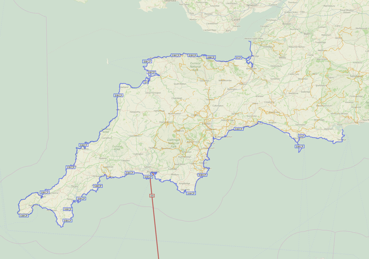 Map of the South West Coast Path based on OpenStreetMap This map may be incomplete, and may contain errors. Don't rely solely on it for navigation.